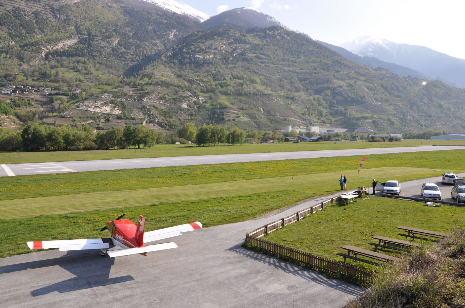 Airport Raron, view from top of hangar 2 towards RC-field and displaced threshold of runway 28